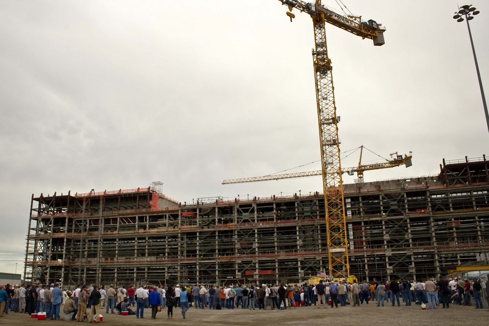 Employees at Hanford's massive Waste Treatment Plant construction project gather around during an all-employee meeting with the Department of Energy's Secretary Chu in June.